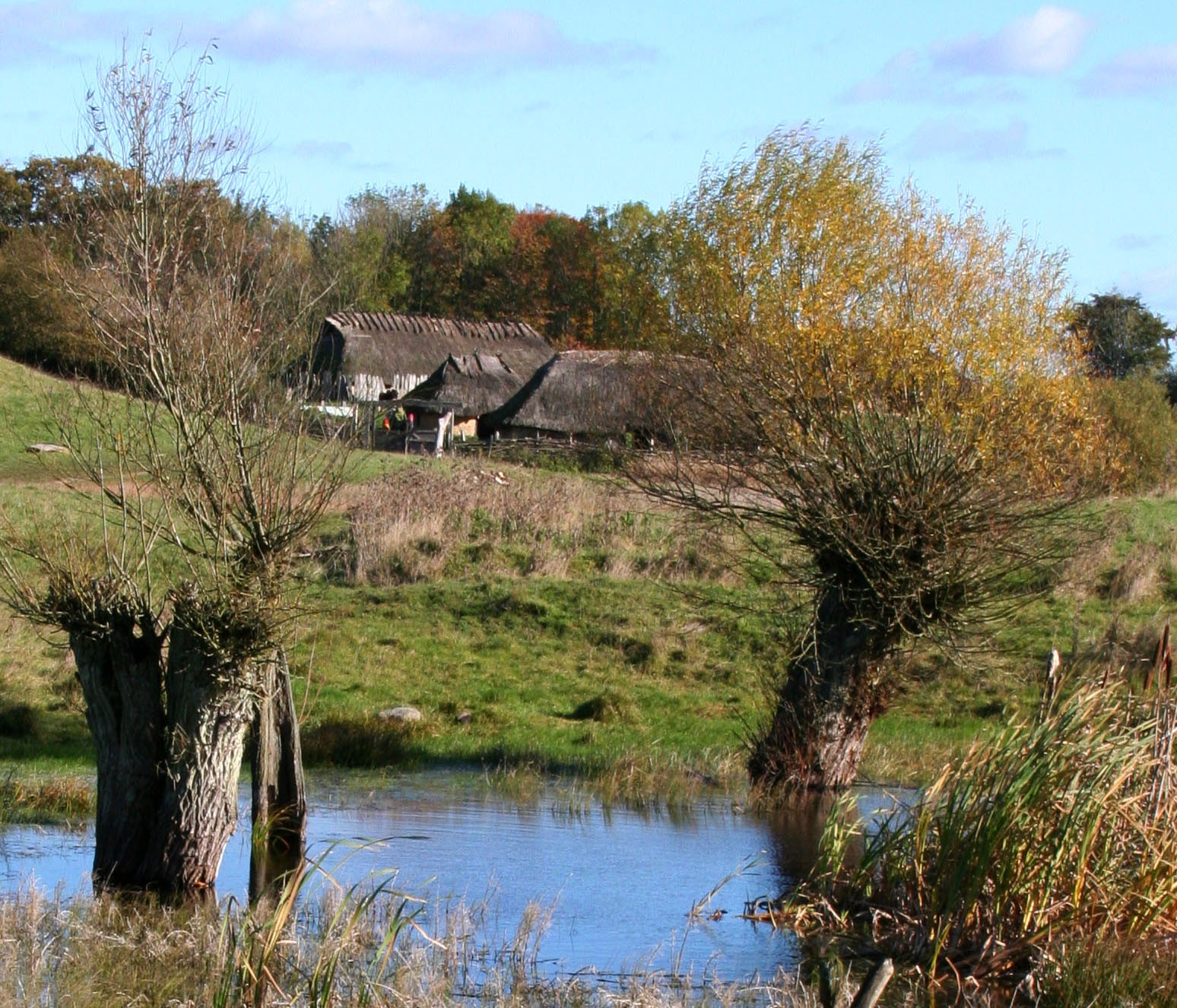 The reconstructed iron age village at Lejre Forsøgscenter ("Land of legends Lejre") near Roskilde, Sealand